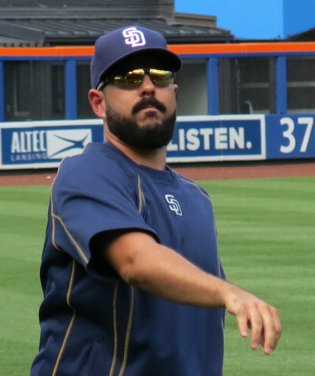 Carlos Villanueva of the San Diego Padres, August 12, 2016.